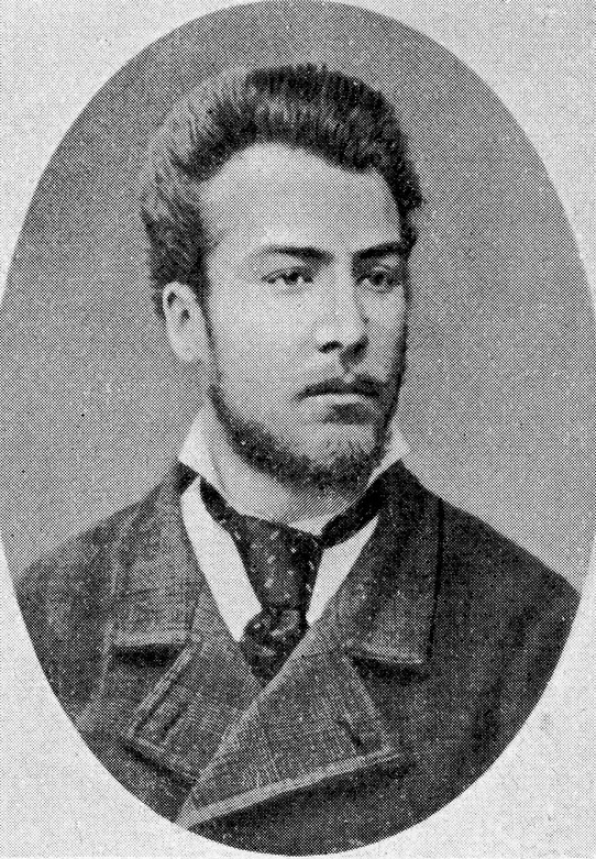 Italian patriot Guglielmo Oberdan, hanged in Trieste on 1882 aged 24 for his failed attempt of assassination of the Austro-Hungarian Kaiser Francis Joseph.